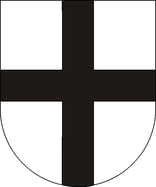 coat of arms of the principal abbey of Fulda, later prince-bishopric